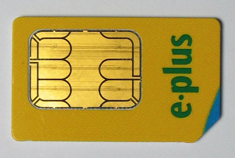 Beschreibung: Eine GSM-SIM-Karte Quelle: selbst aufgenommen Fotograf: CrazyD, 15. Dezember 2005 Lizenzstatus: GNU FDL Description: a GSM-SIM-Card Source: photo was taken by my self Photographer: CrazyD, 15th December 2005 Licence: GNU FDL